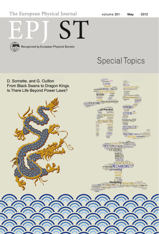 The cover of the book The European Physical Journal Special Topics 205.1 (2012) by Didier Sornette.